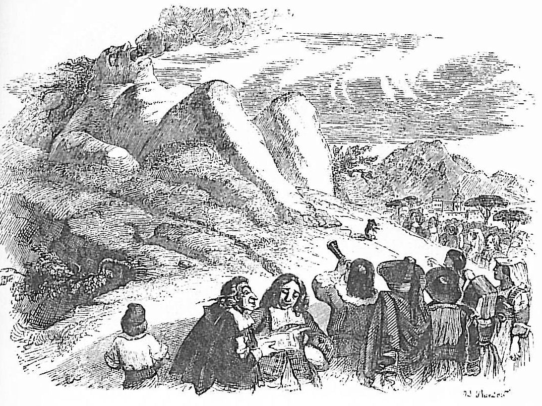 illustration of Jean de La Fontaine's fables by Grandville